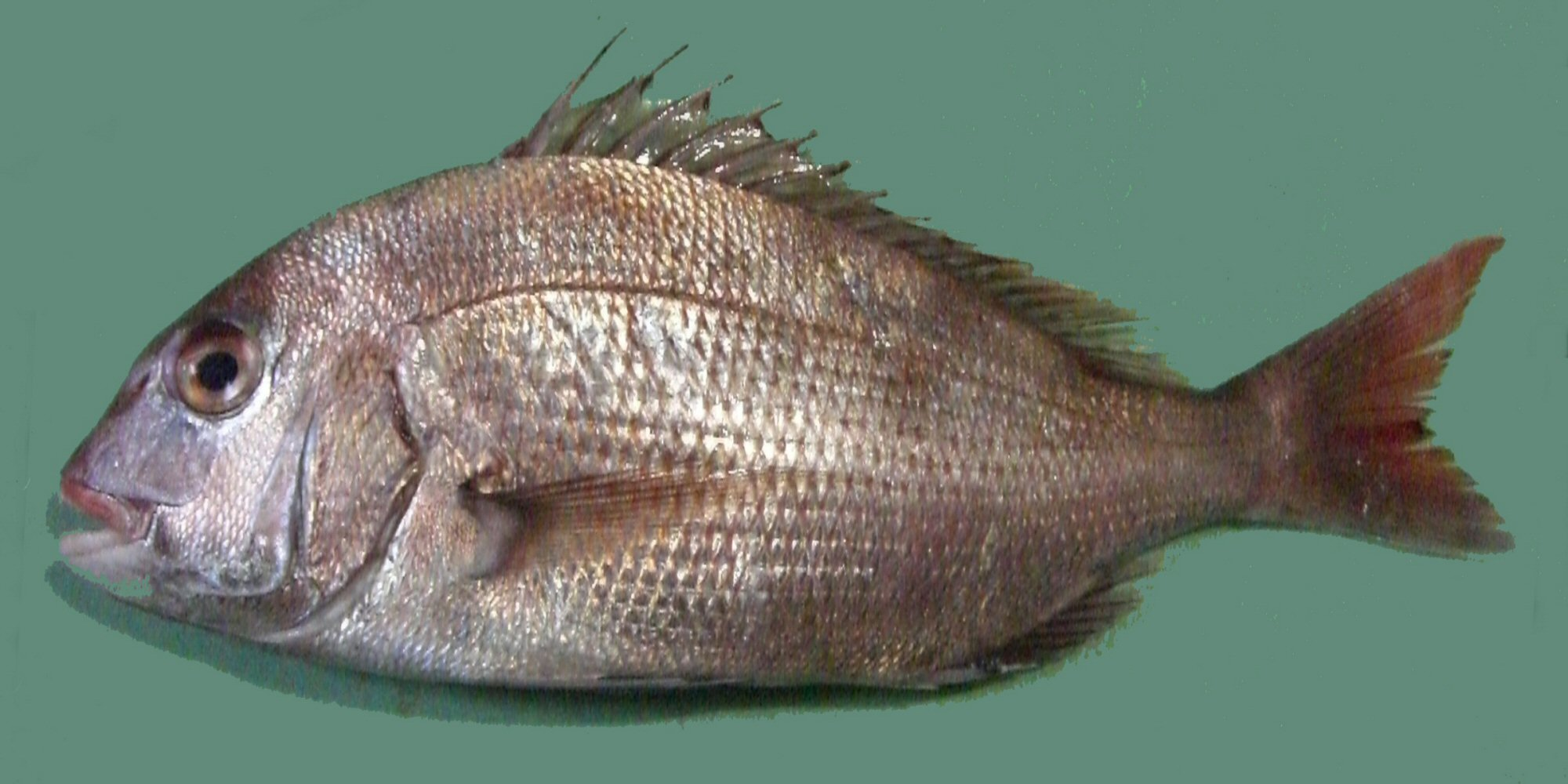 Pagrus major;Red seabream;マダイ bought at a fish shop in Hyogo, Japan